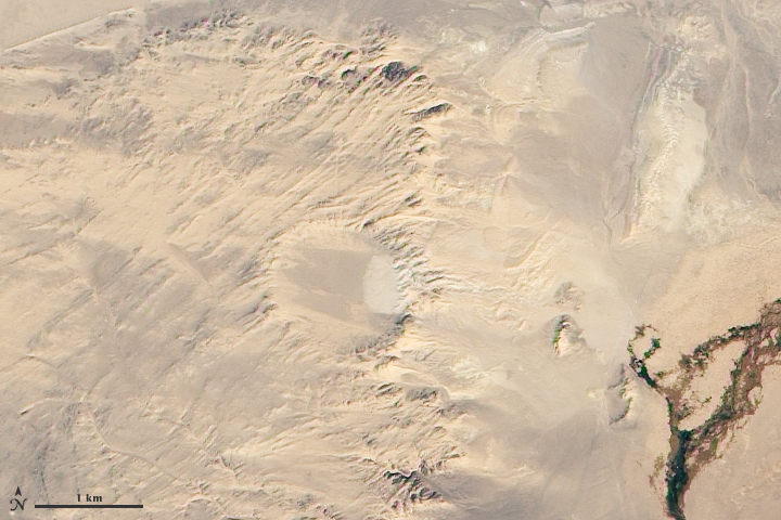 Tabun-Khara-Obo crater in Mongolia from space